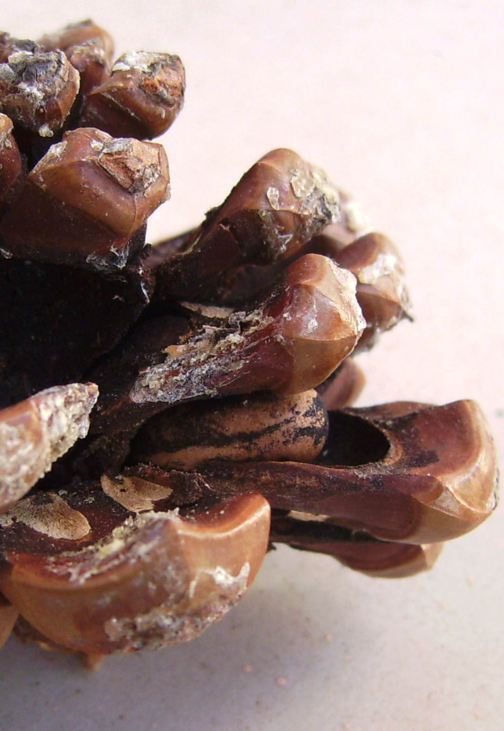 Pineseed inside its cone from Castelltallat, Catalonia